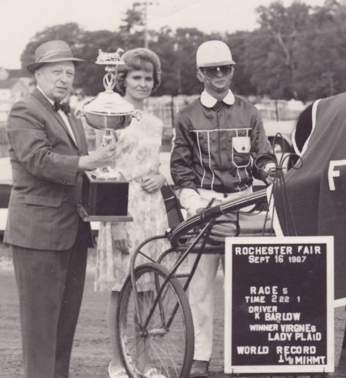 1967 World Record Rochester New Hampshire